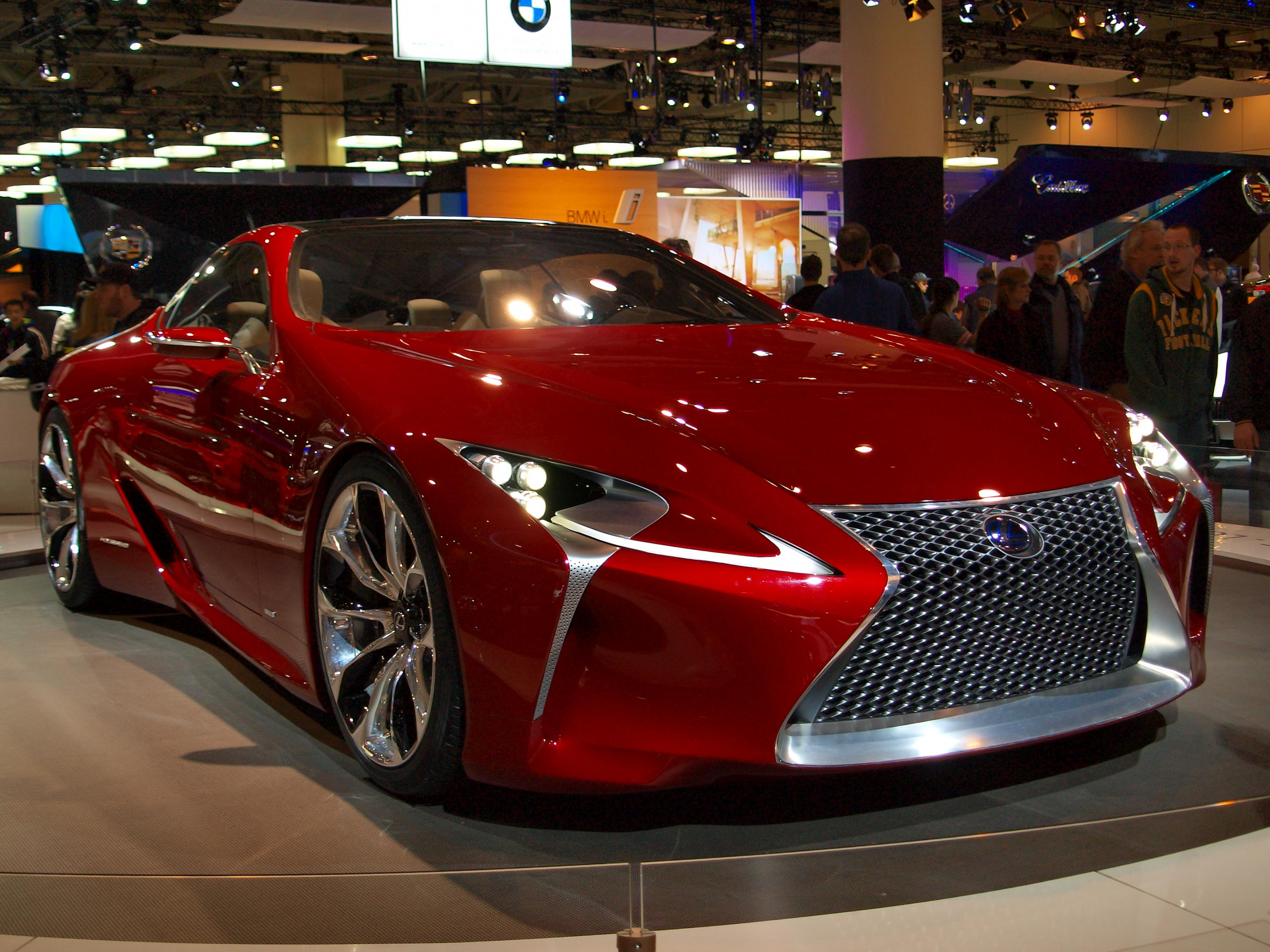 Those are some awesome lights!